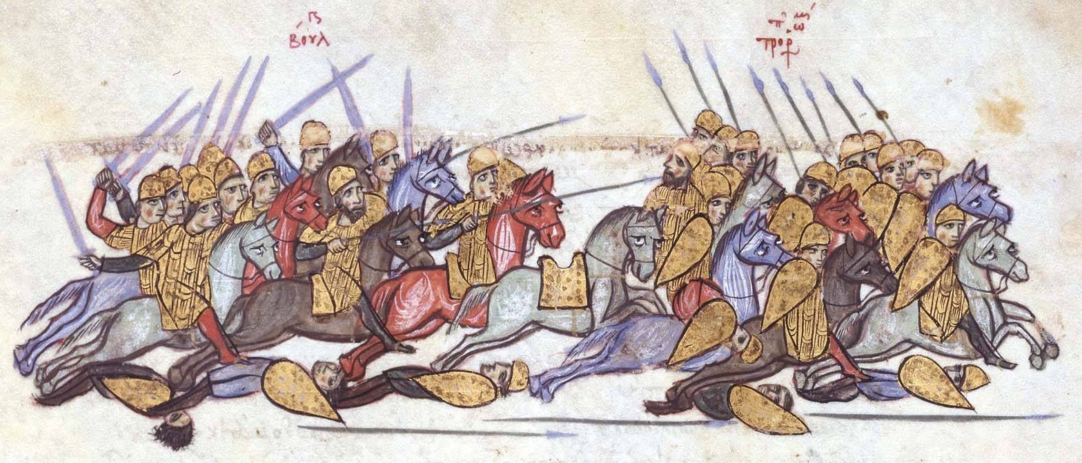 Bulgarian forces rout the Byzantines at Anchialos in 917. Madrid Skylitzes.